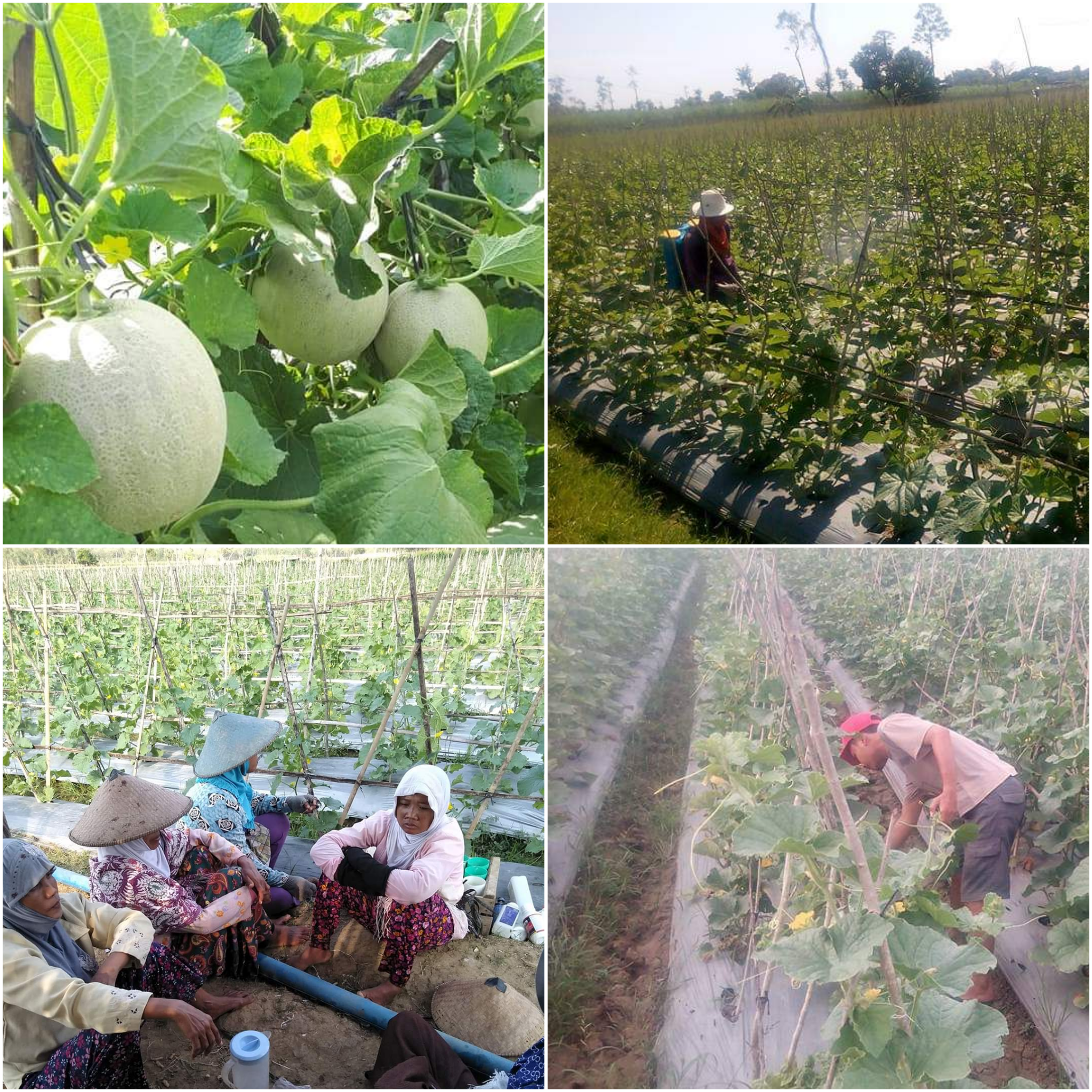 Kesederhanaan petani Desa Sampung